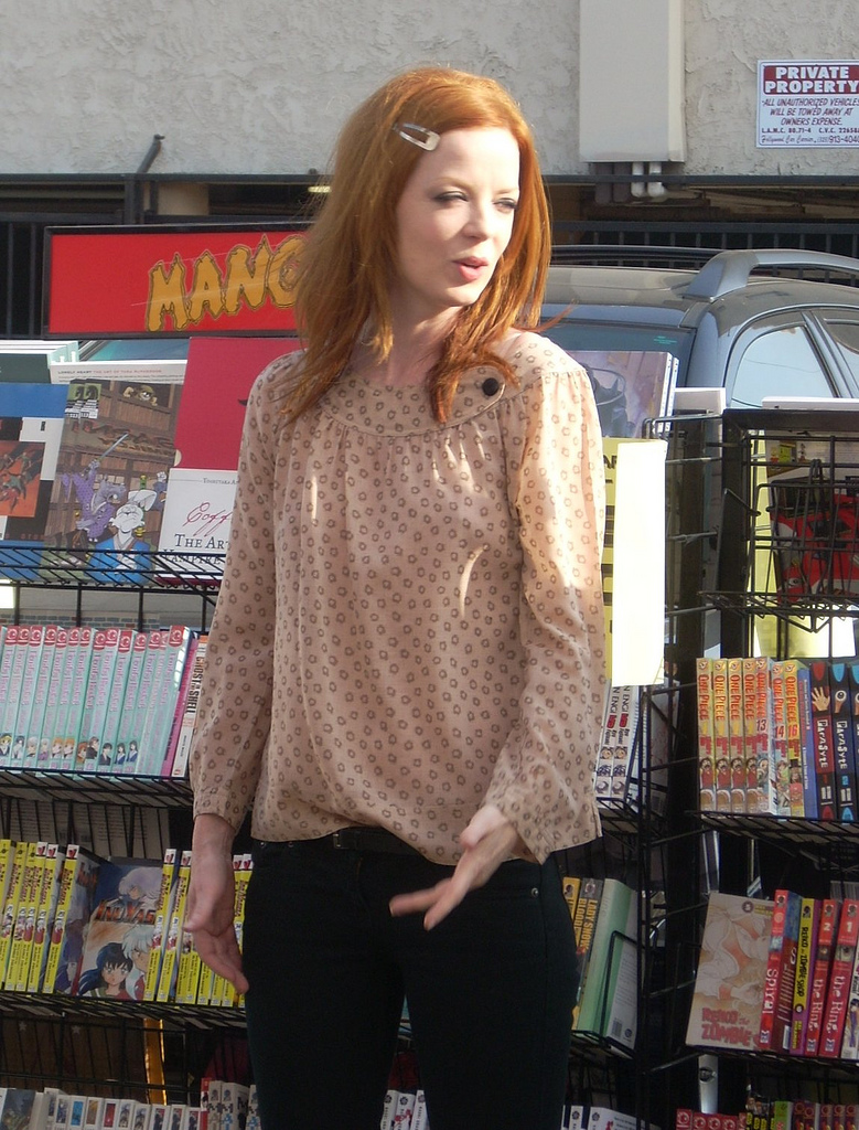 Meet the Cast of "Terminator: The Sarah Connor Chronicles" Signing and Screening Event, Golden Apple Comics on Melrose - Sat., Sept. 13, 2008